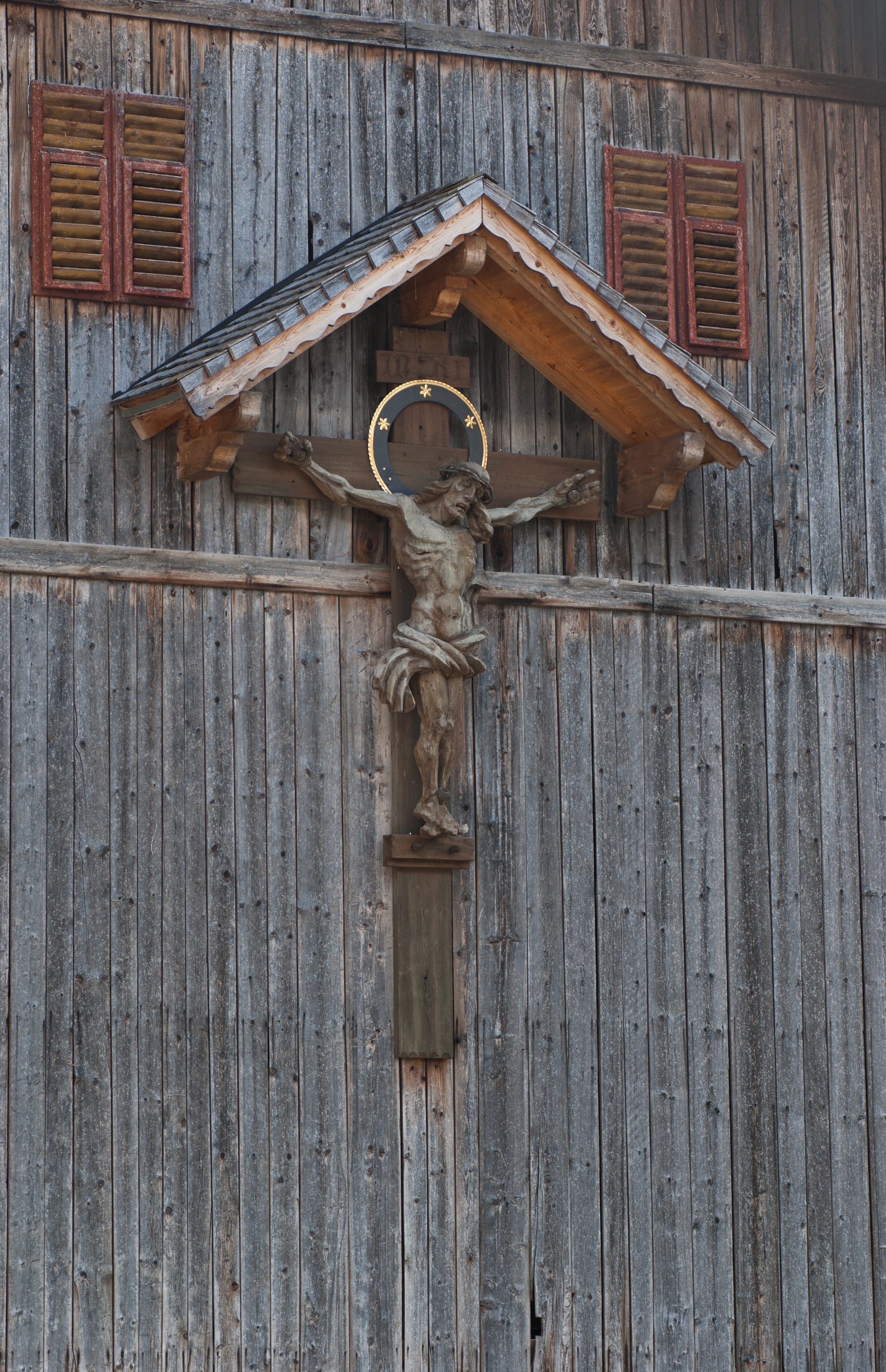 Monumentalkruzifix in Baumkirchen an der Scheunenwand beim Haus Dorfstraße 29, ein Hauptwerk des Bildhauers Johann Obleitner This media shows the remarkable cultural object in the Austrian state of Tyrol listed by the Tyrolean Art Cadastre with the ID 142108. (on tirisMaps, pdf, more images on Commons, Wikidata)